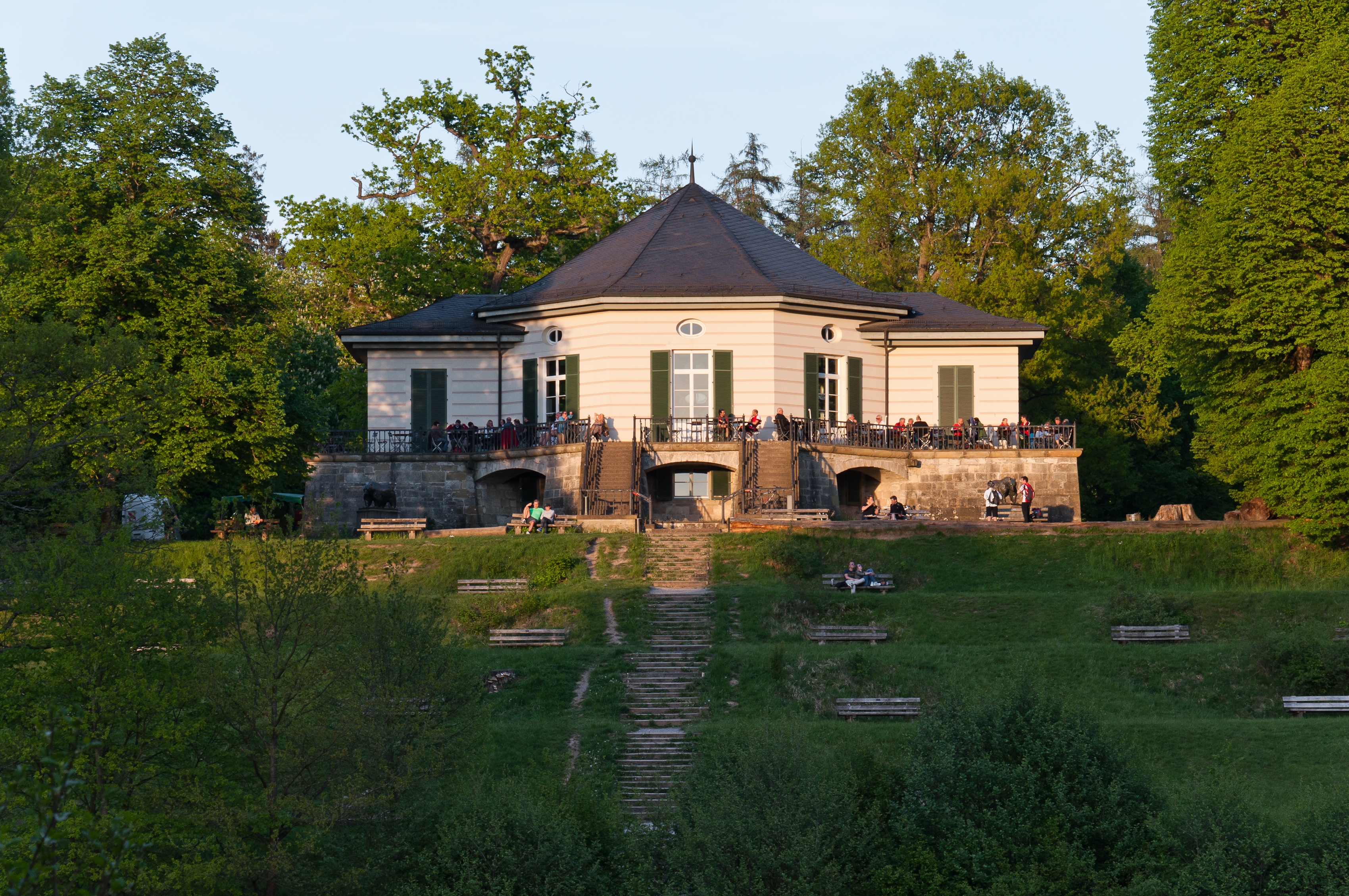 "Bärenschlössle" in the natural reserve "Rotwildpark", Stuttgart, Germany.